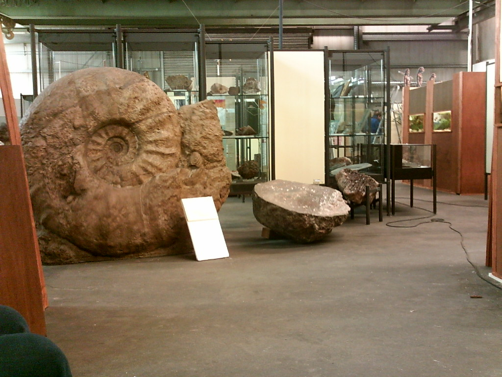 Parapuzosia seppenradensis (Replica). Largest, complete Ammonite of the world, known so far. There are replicas in the town, where it was found (Seppenrade, near Münster, North Germany) and in well known museums around the world. The original is in Westfälisches Landesmuseum, Münster.